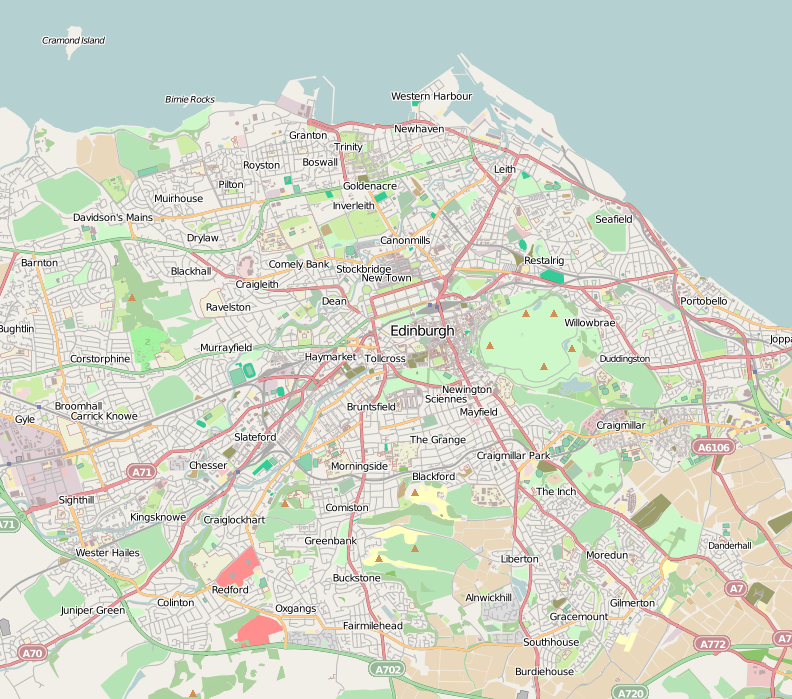 Map of Edinburgh Geographic limits of the map: N: 55.9996° S: 55.8912° W: -3.3102 E: -3.0908° Contains map data © OpenStreetMap contributors, made available under the terms of the Open Database License (ODbL). The ODbL does not require any particular license for maps produced from ODbL data; map tiles produced by the OpenStreetMap foundation are licensed under the CC-BY-SA-2.0 licence, but maps produced by other people may be subject to other licences.